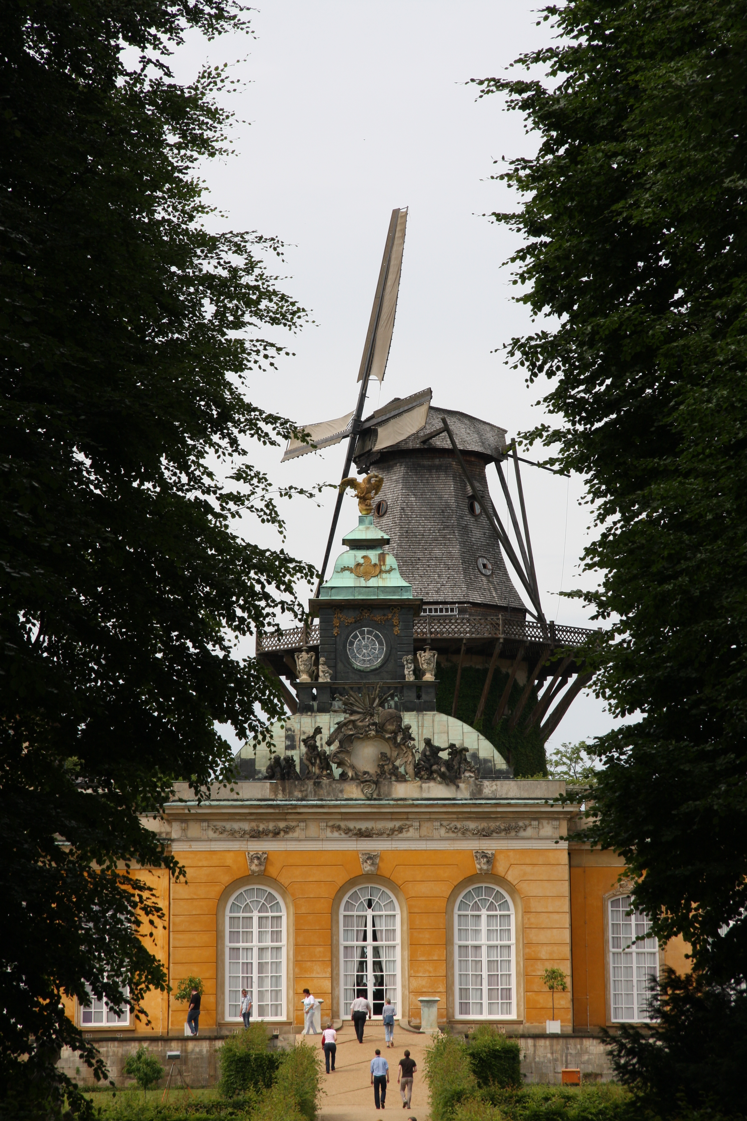 the Windmill in Sanssouci